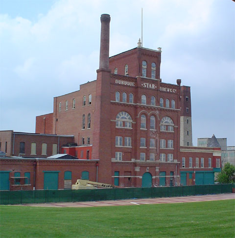 This is a photo of the Dubuque Star Brewery, located in Dubuque, Iowa. The brewery is part of the riverfront redevelopment efforts that the city has undertaken. This photo was taken by me in May of 2004.